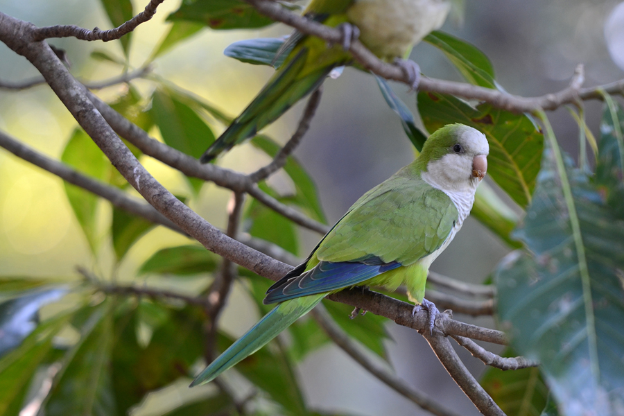 A Monk Parakeet (also known as the Quaker Parrot) in Dourados, Mato Grosso do Sul, Brazil.